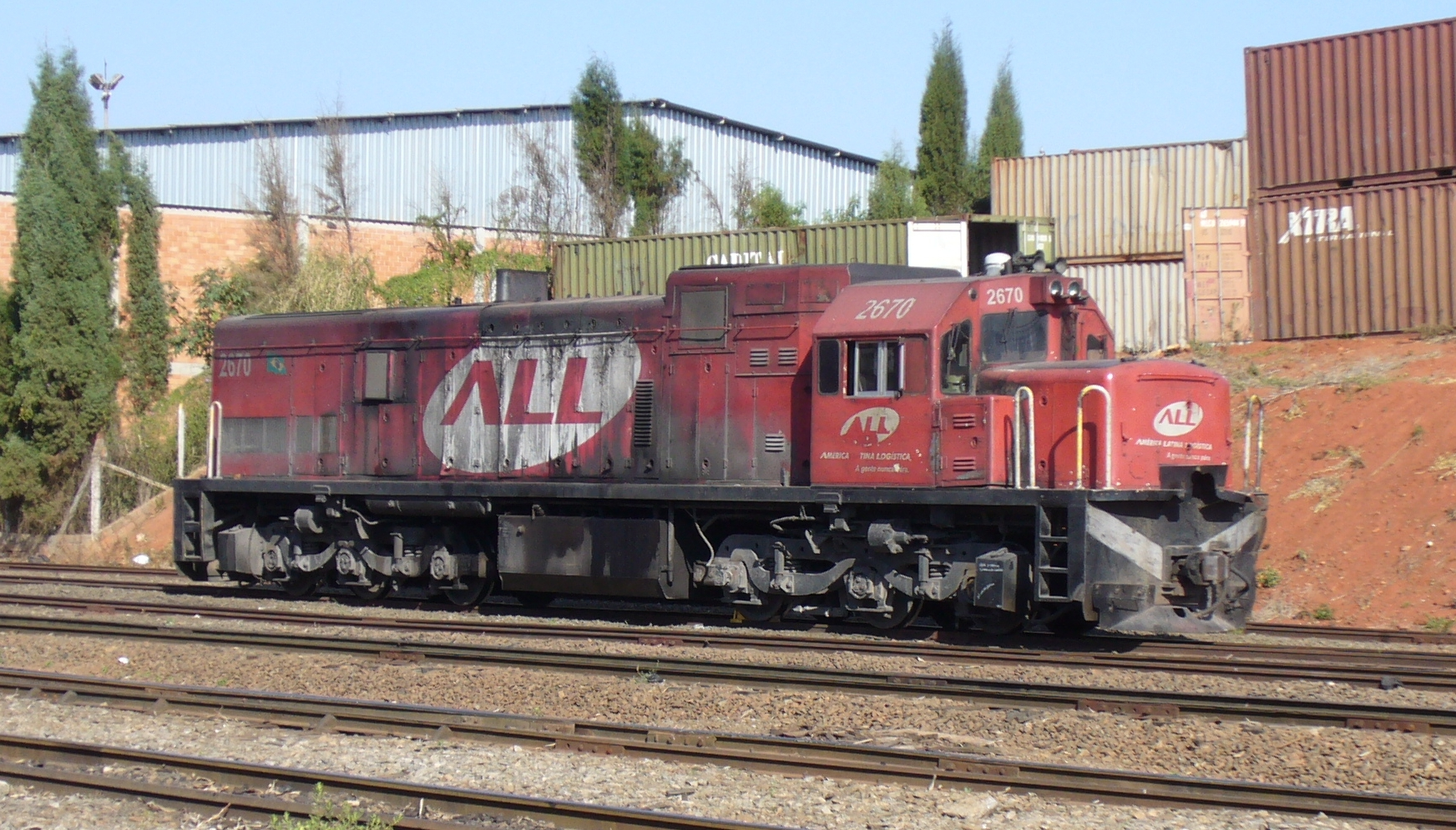 U20C Diesel-Electric Locomotive # 2670 (CC) of America Latina Logistica built by Dorman Long in South Africa in 1968, with serial number 36530, operated in the SAR, as part of Class 33-400, operating with the number 33-401. With the separation of Namibia in 1990, was transferred to TransNamib, composing the Class 33, with the number No. 401, were acquired in 1997 by Ferrovia Centro-Atlântica, and sold in 1999 for América Latina Logística. Of the 20 unit incorporated ALL, in July 2010, 10 locomotives are operational, five locomotives reported as non-operating and two were returned to the RFFSA, 3 units (No. 2663, 2668 and 2679) were sold to Casagrande Motori Chile. The locomotive No. 2662 was retired and sold to Ferroviaria Oriental (FOB), the locomotivas # 2663 and 2679 the locomotives were sold to Sociedad Química y Minera de Chile SA (SQM). Photographed in September 2011 in Tatuí-SP